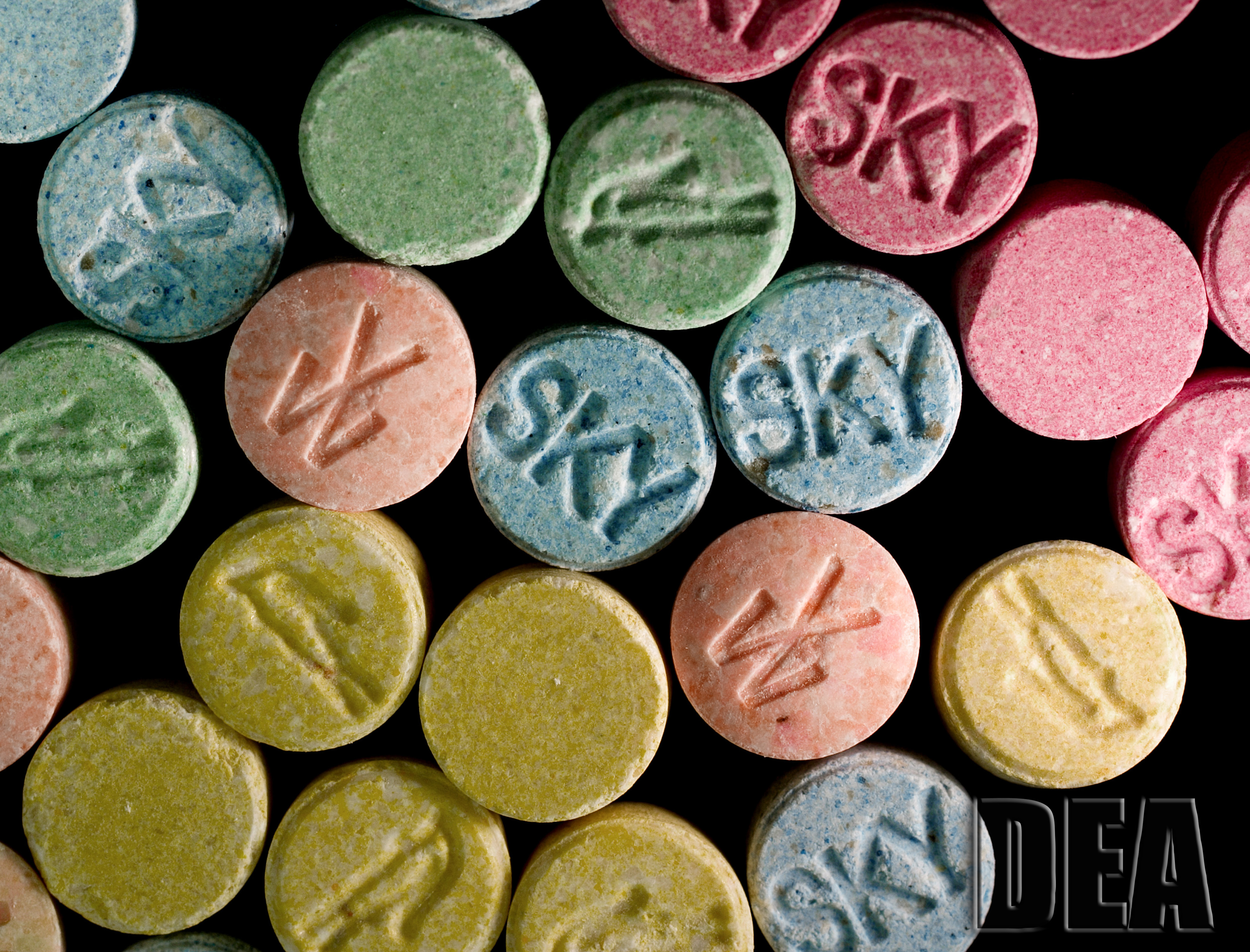 Ecstasy tablets